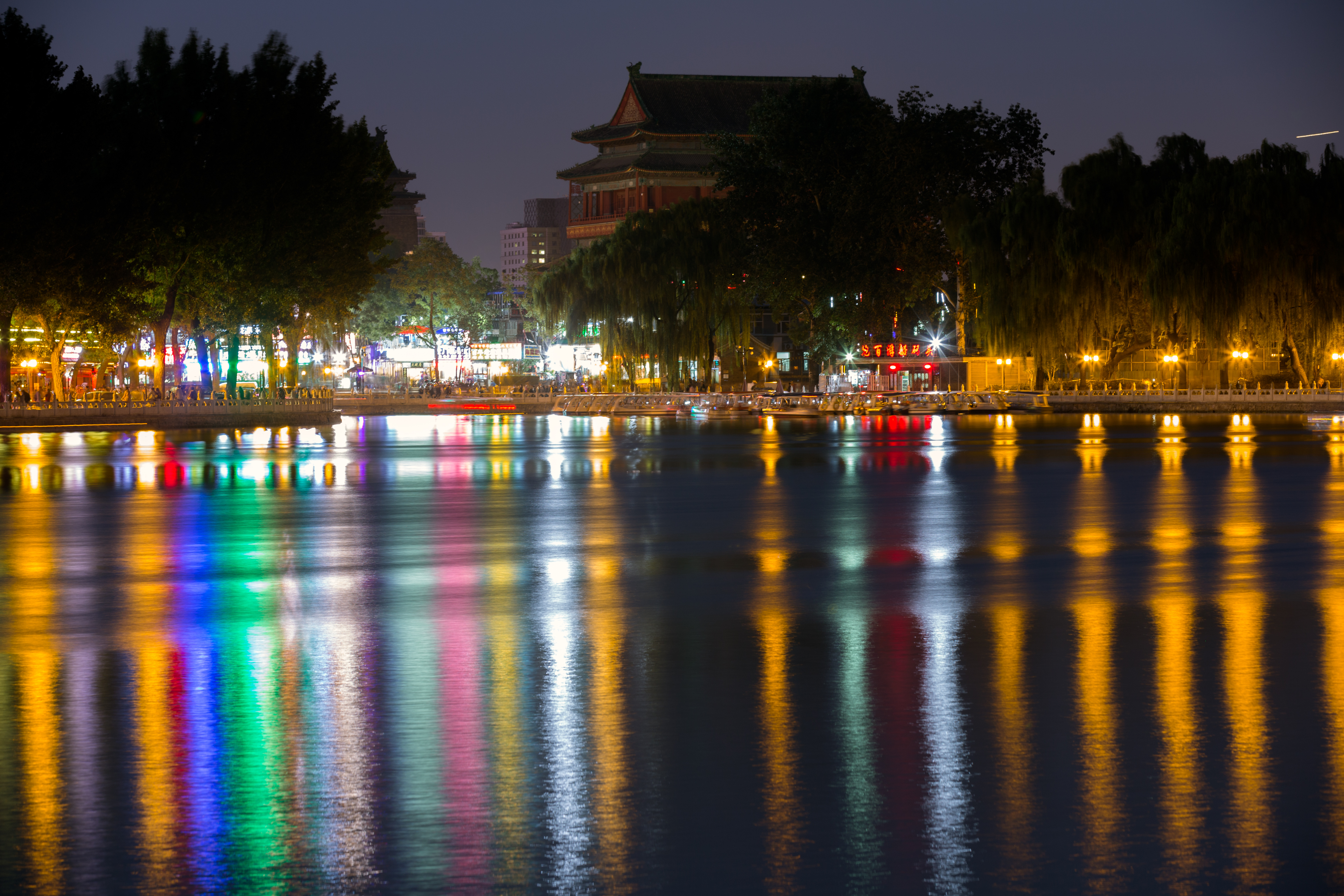 Houhai Lake